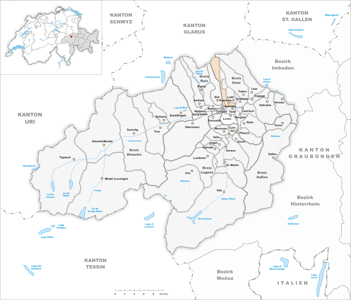 Municipality Ruschein